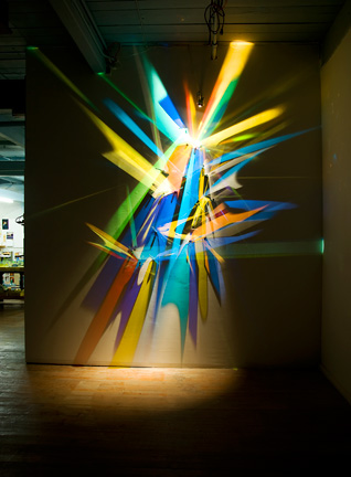 Installation view of Done for the Night, an artwork by artist Stephen Knapp.